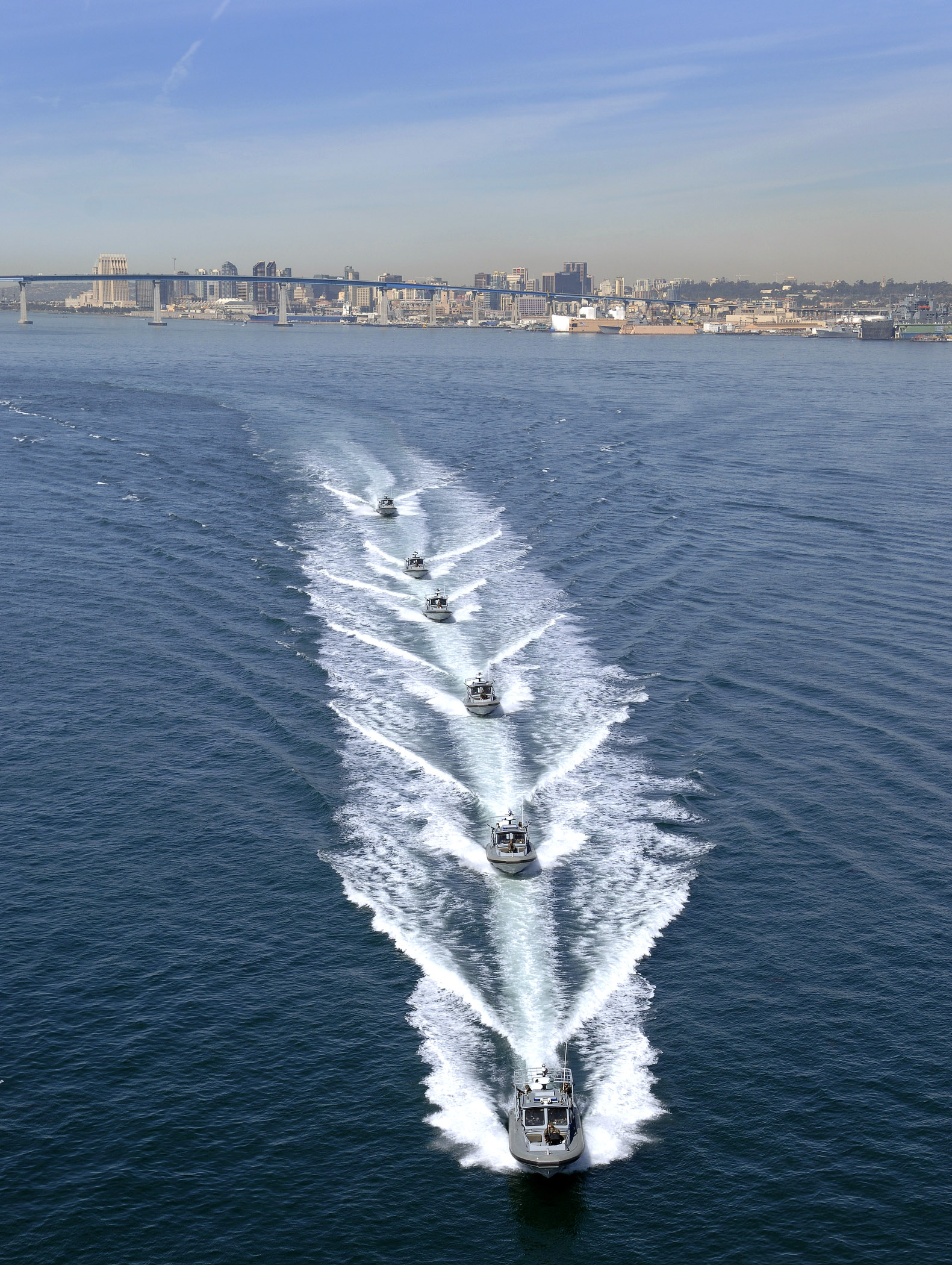 San Diego (Feb. 5, 2007) - Patrol Boats assigned to Inshore Boat Units Five One (IBU-51) and IBU-52 conduct operations near Coronado Bay Bridge. The two units are part of Naval Coastal Warfare Squadron Five (NCWRON-5). U.S. Navy photo by Mass Communication Specialist 1st Class Michael B. W. Watkins (RELEASED)